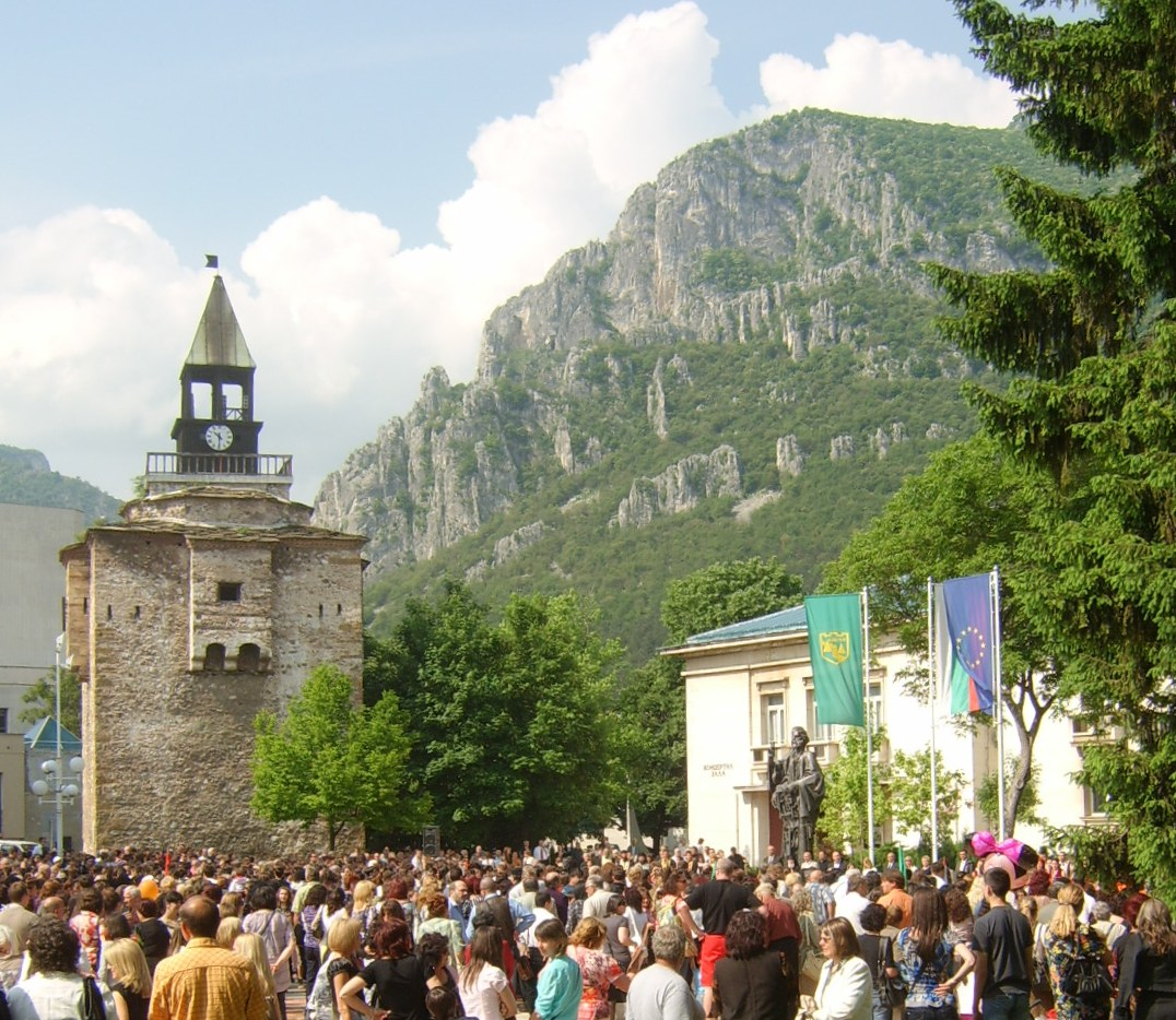 The Tower of the Meshtchii is one of the symbols of Vratsa